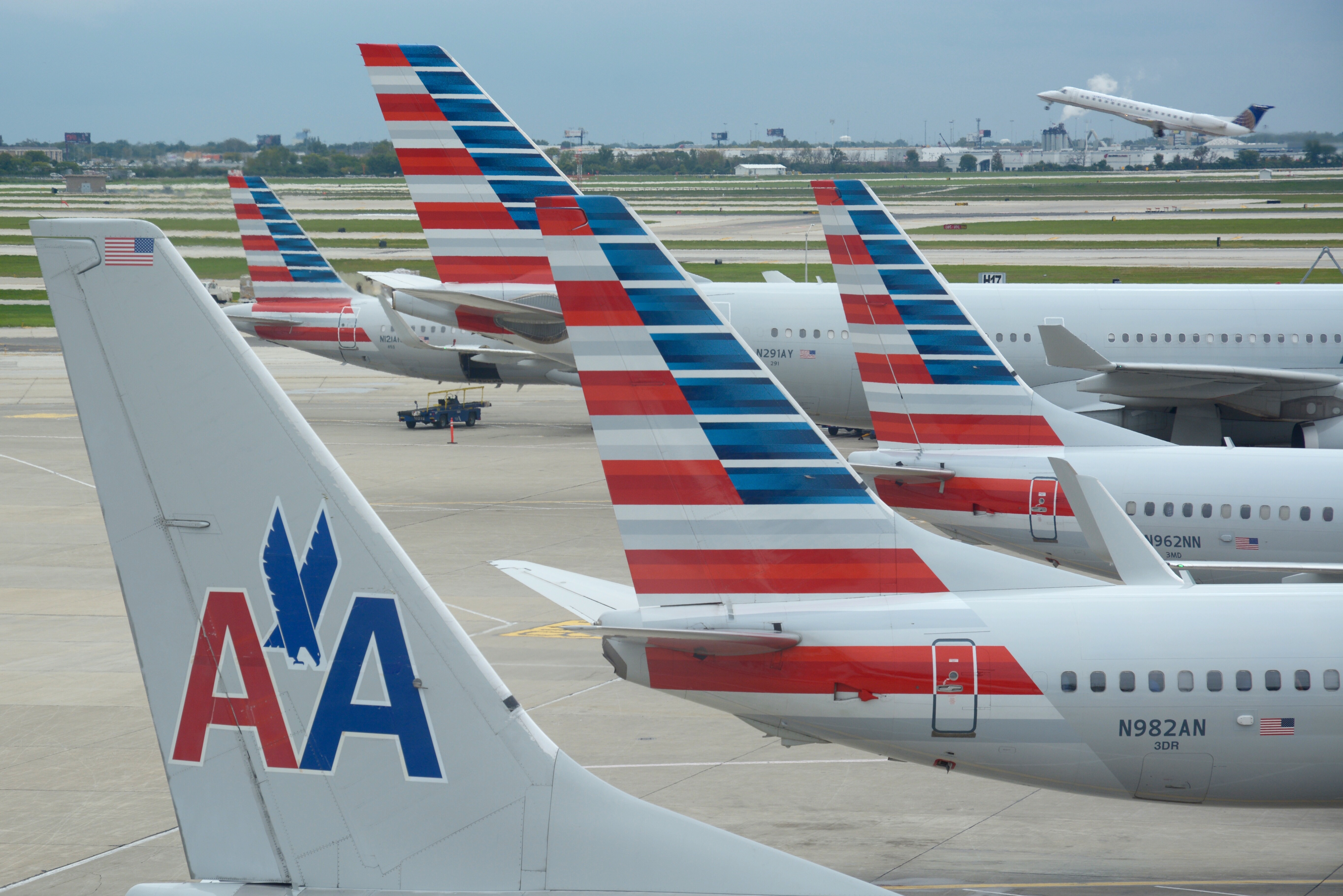 American Airlines aircraft at O'Hare